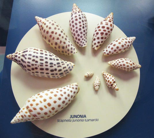 Part of one museum exhibit shows a growth series of the very attractive shell Scaphella junonia, which is found (but only quite rarely) on the island of Sanibel.